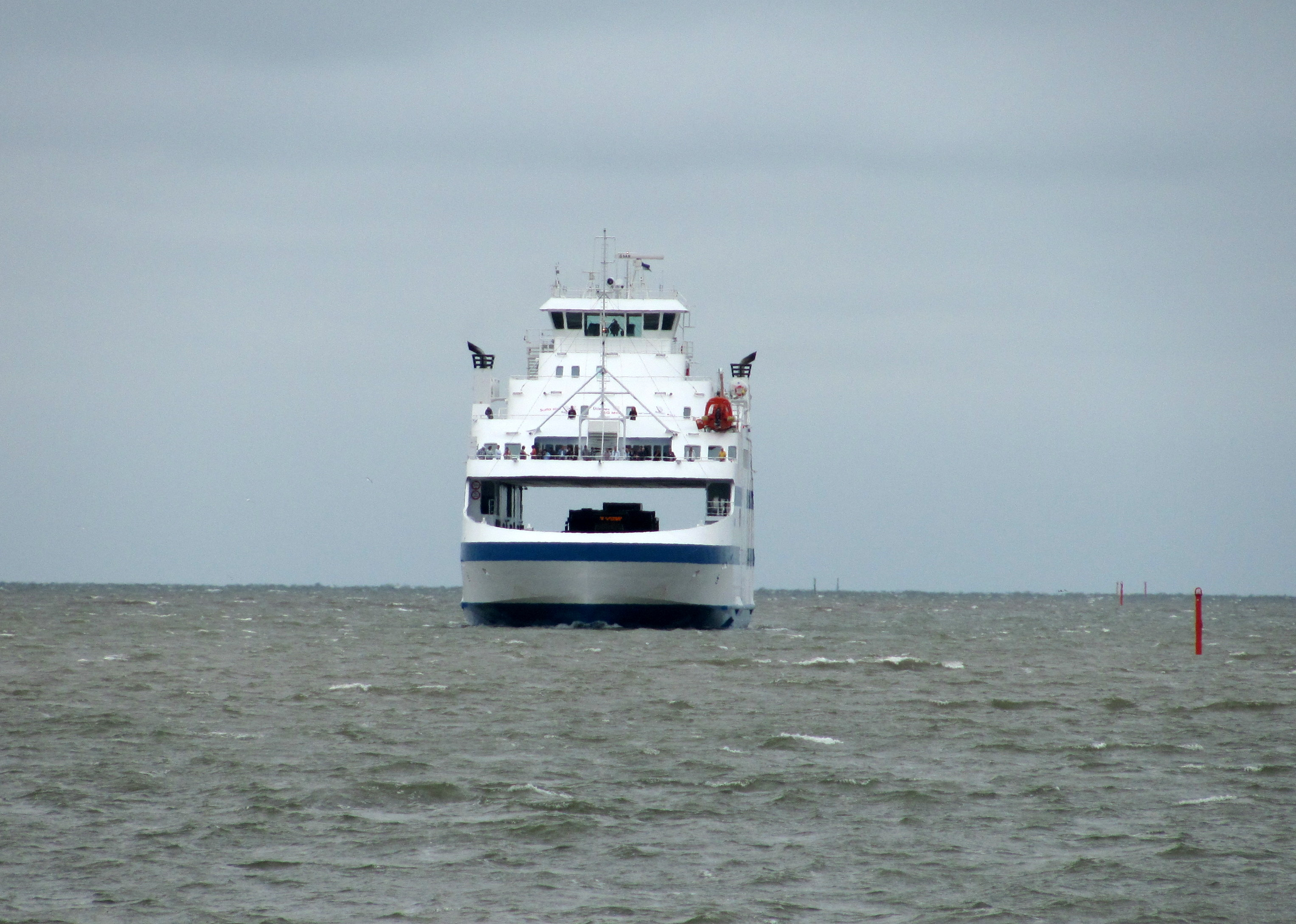 Ship Muhumaa on sea.